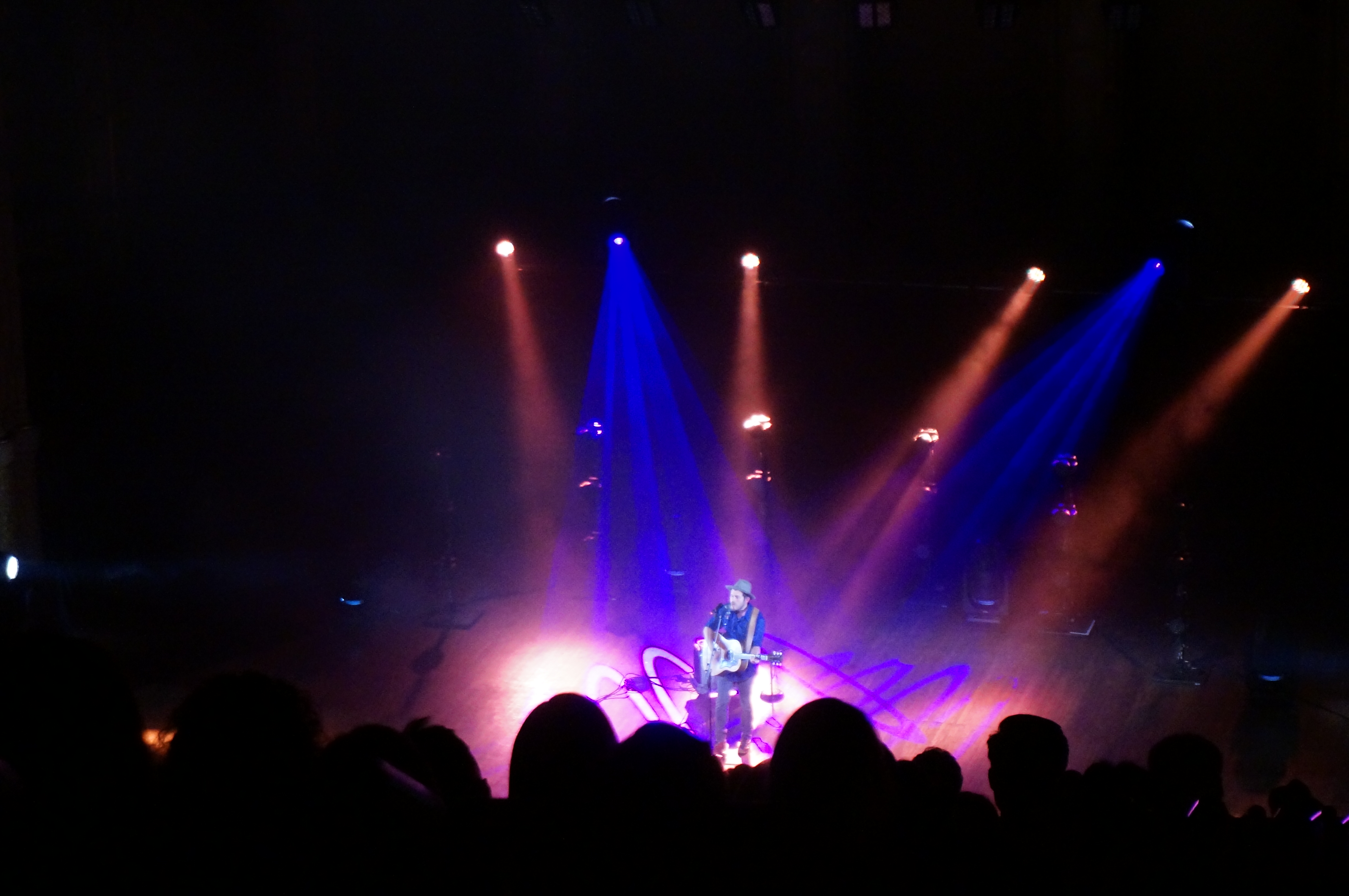 Gregory Alan Isakov at The Orpheum Theatre in Vancouver on September 9th 2015